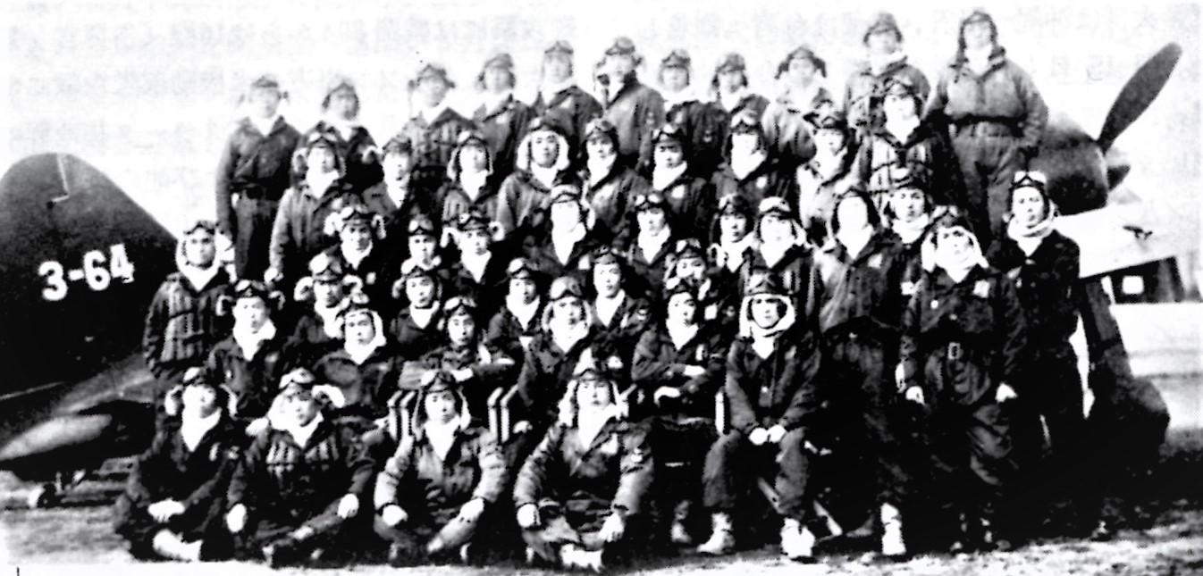 1945年初め、笠ノ原における戦闘303飛行隊の集合写真